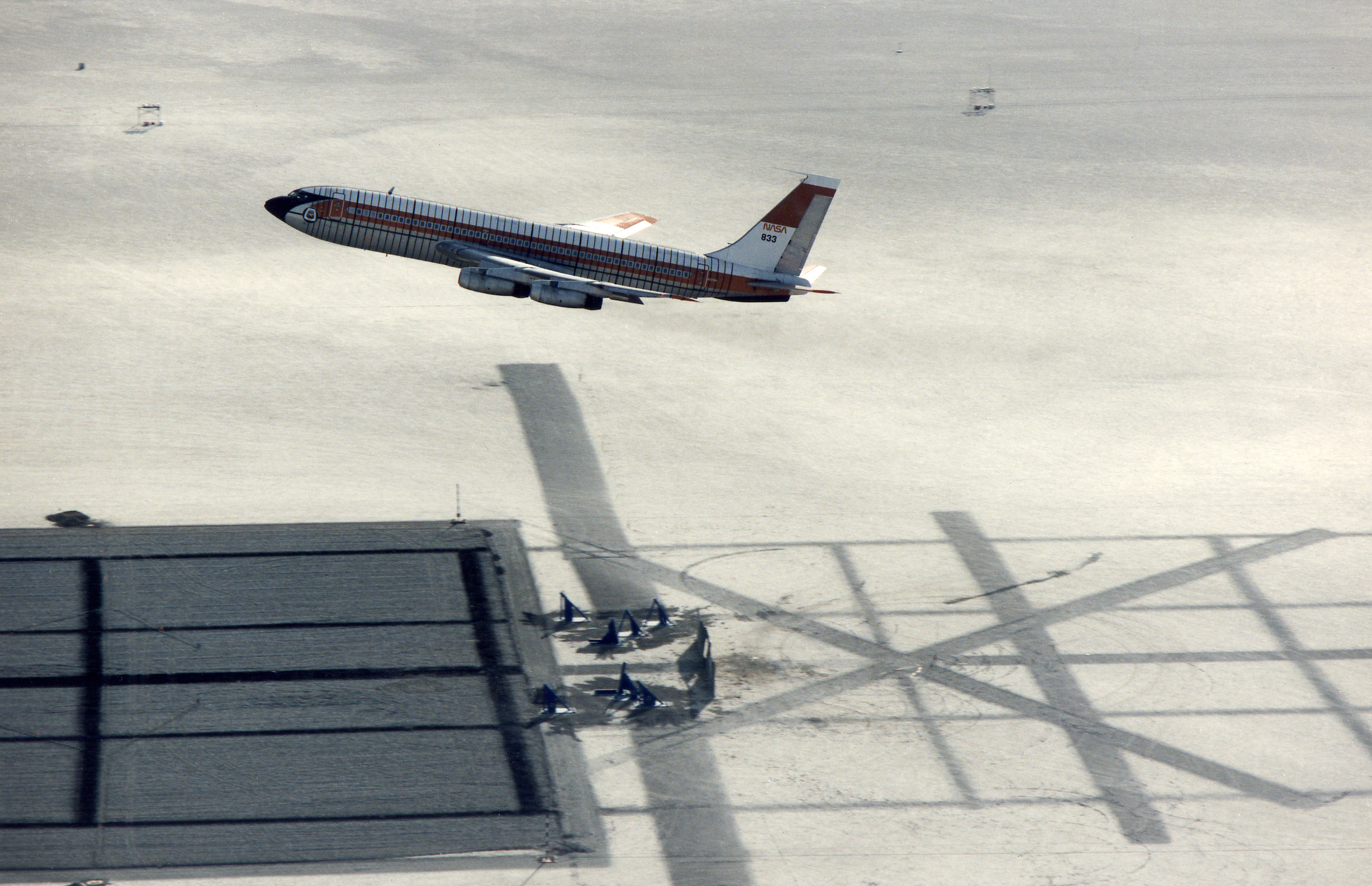 CID Aircraft in practice flight above target impact site with wing cutters